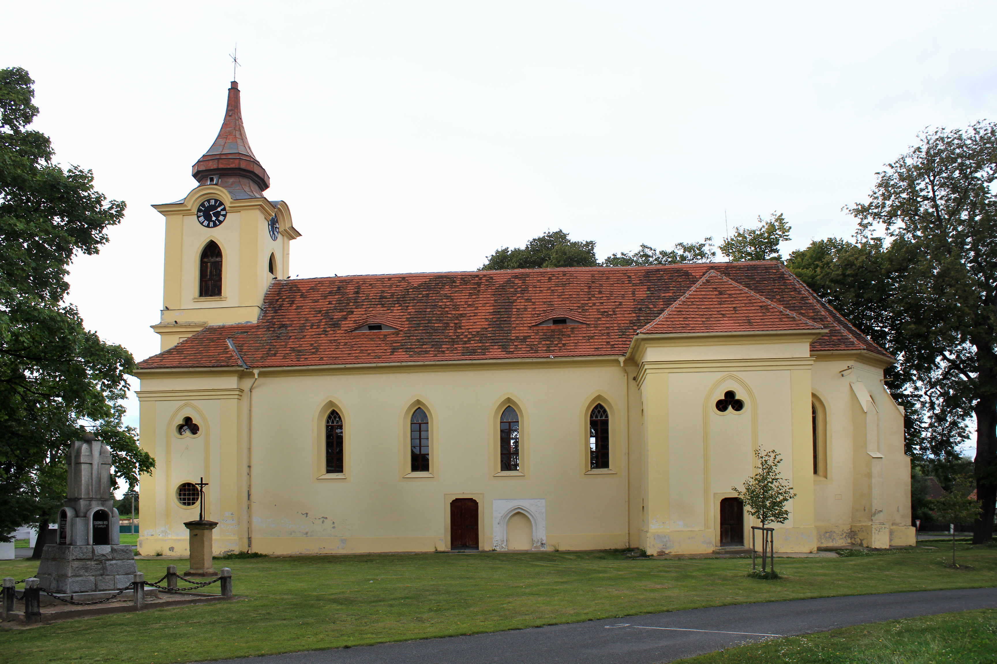 Church in Ves Touškov village, Czech Republic.